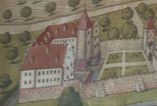 Wörth am Main